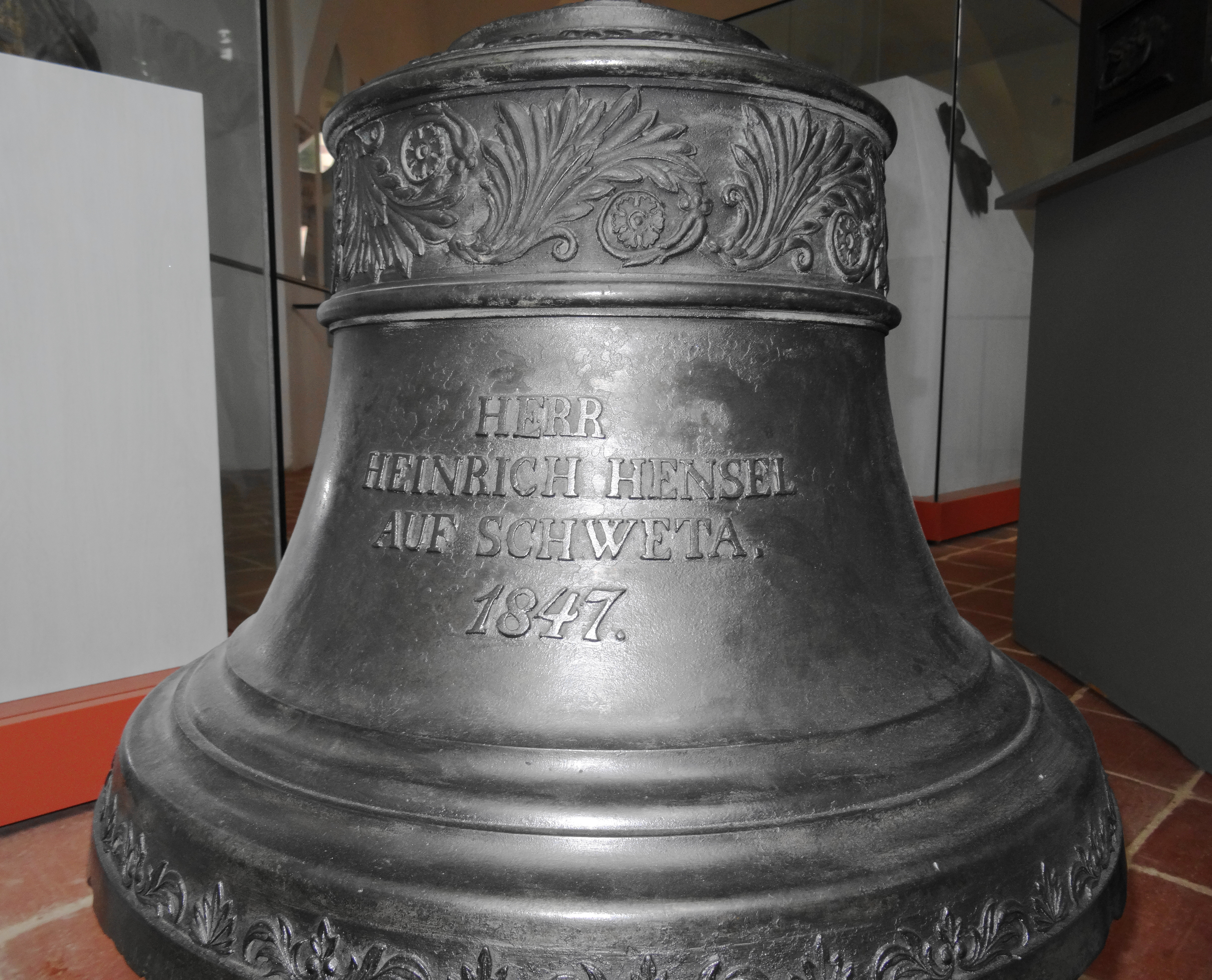 Bell of the manor Schweta near Doebeln Saxony in the chapel of the castle Mildenstein in Leisnig.